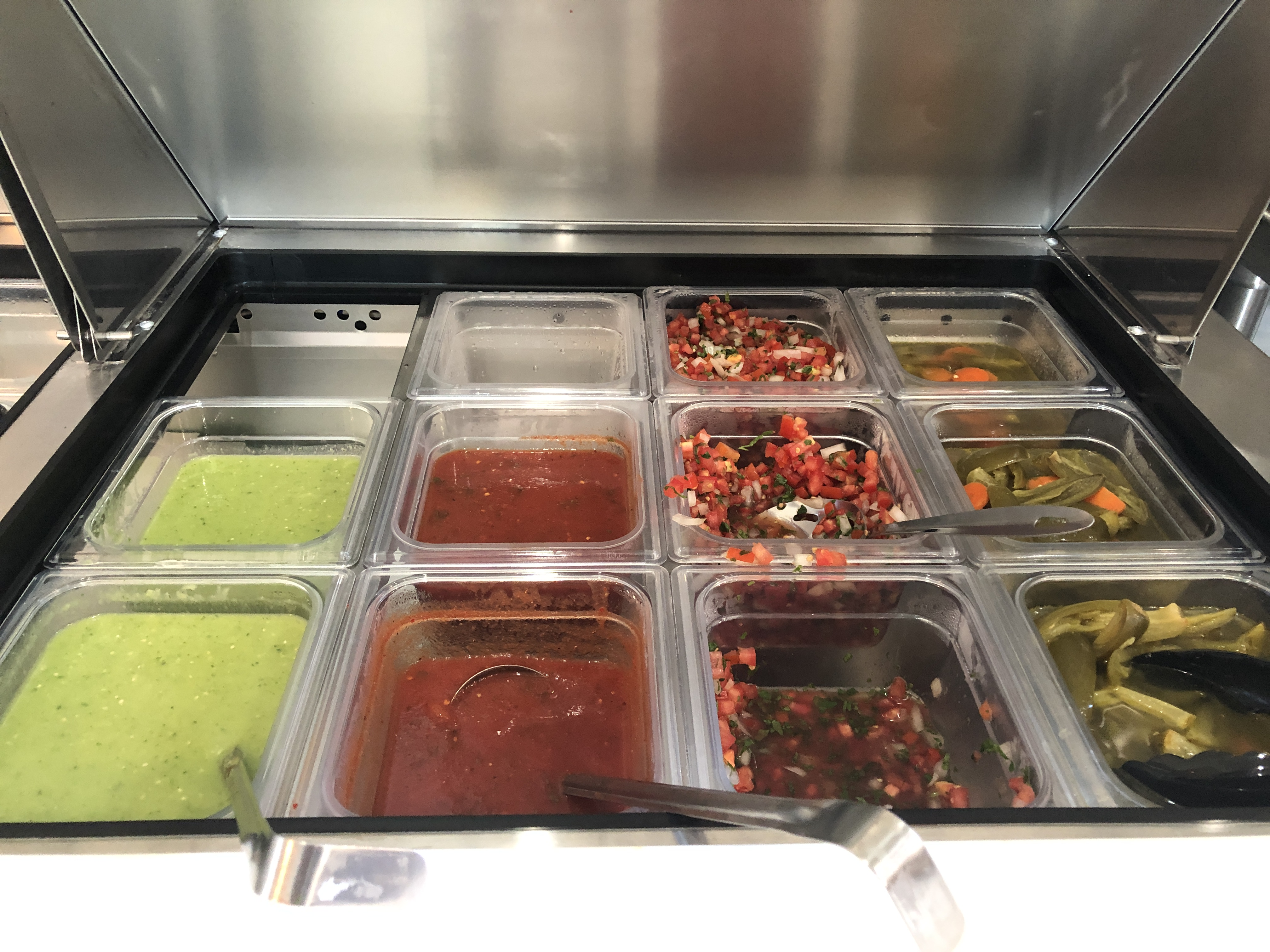 Salsa bar at La Hacienda Mexican Grill in Sonoma, California